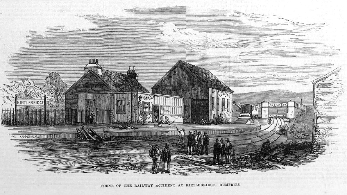 Periodical illustration of the scene at Kirtlebridge after the October 1872 accident. NB the view owes much to the engraver's imagination.